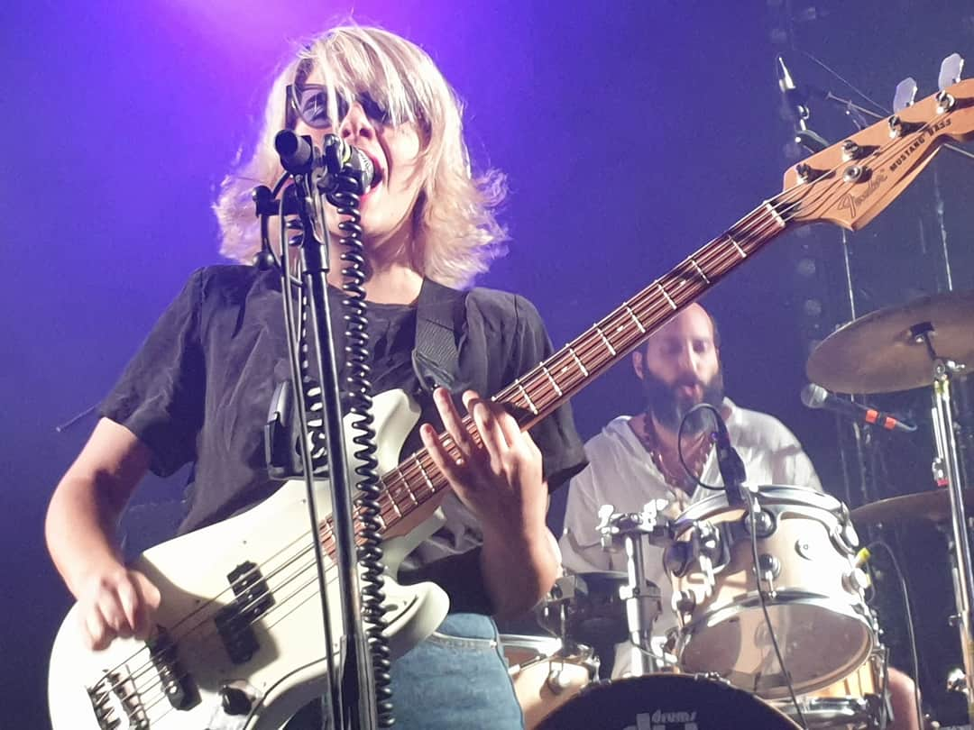 Depicted person: Hila Ruach – Israeli vocalist